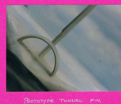 prototype tunnel fin built by Roy Stewart in 1998, at Papamoa Beach just after surf test